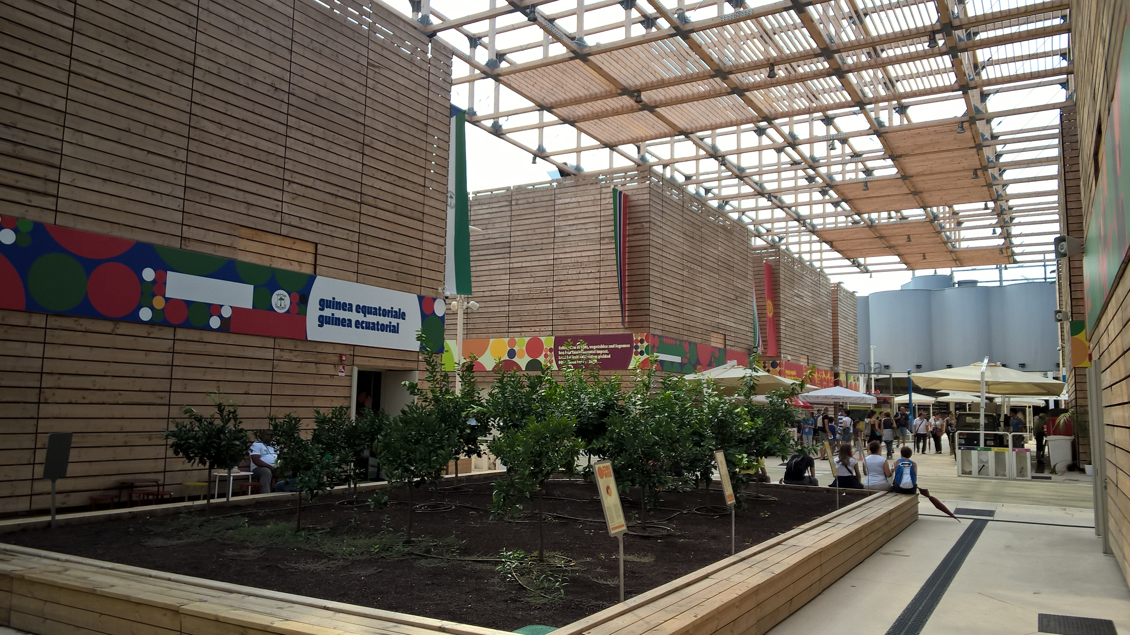 Fruits and Legumes cluster at Expo Milano 2015